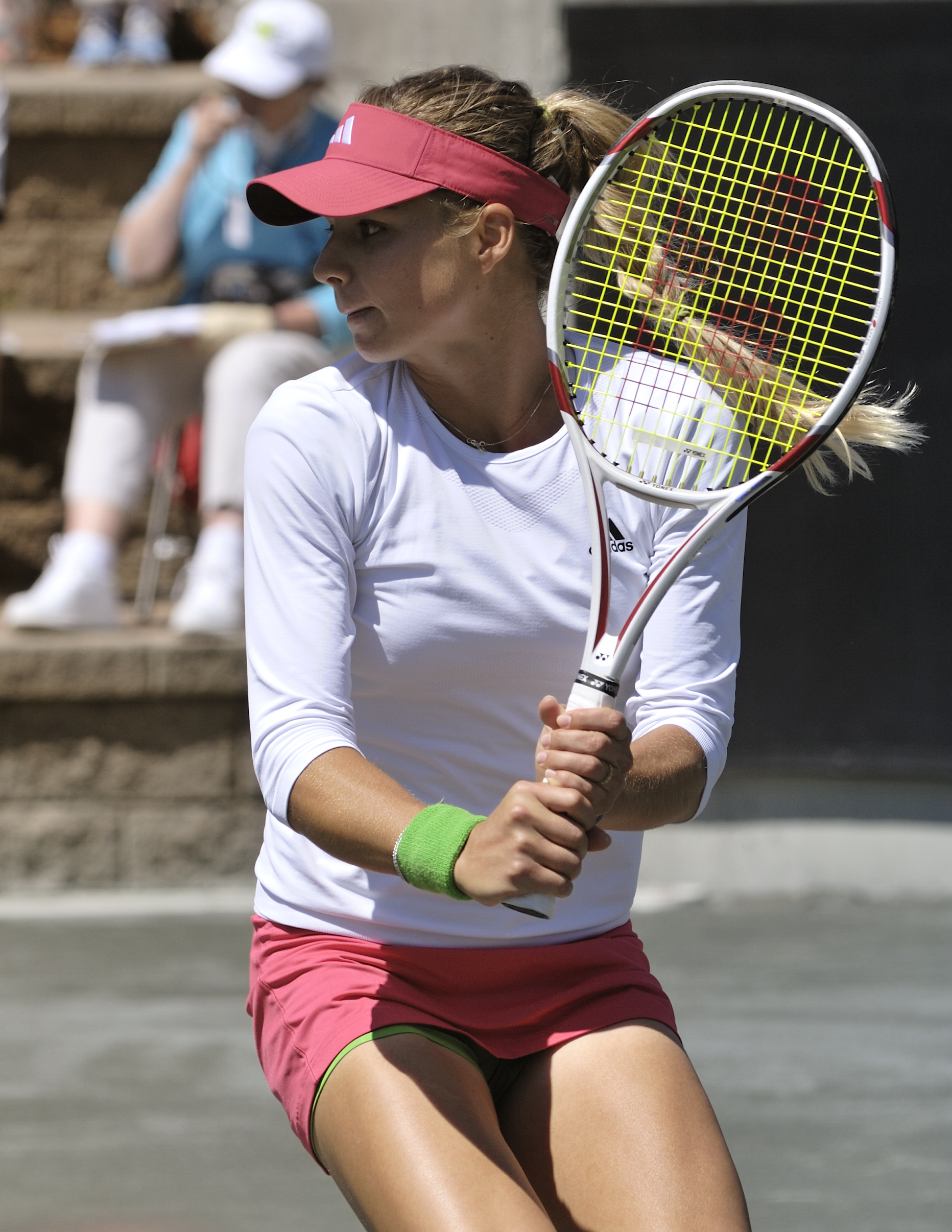 Maria Kirilenko during a match against Anna Tatshvili in the second round of the 2011 Family Circle Cup. Tatshvili won 5-7, 7-5, 6-3